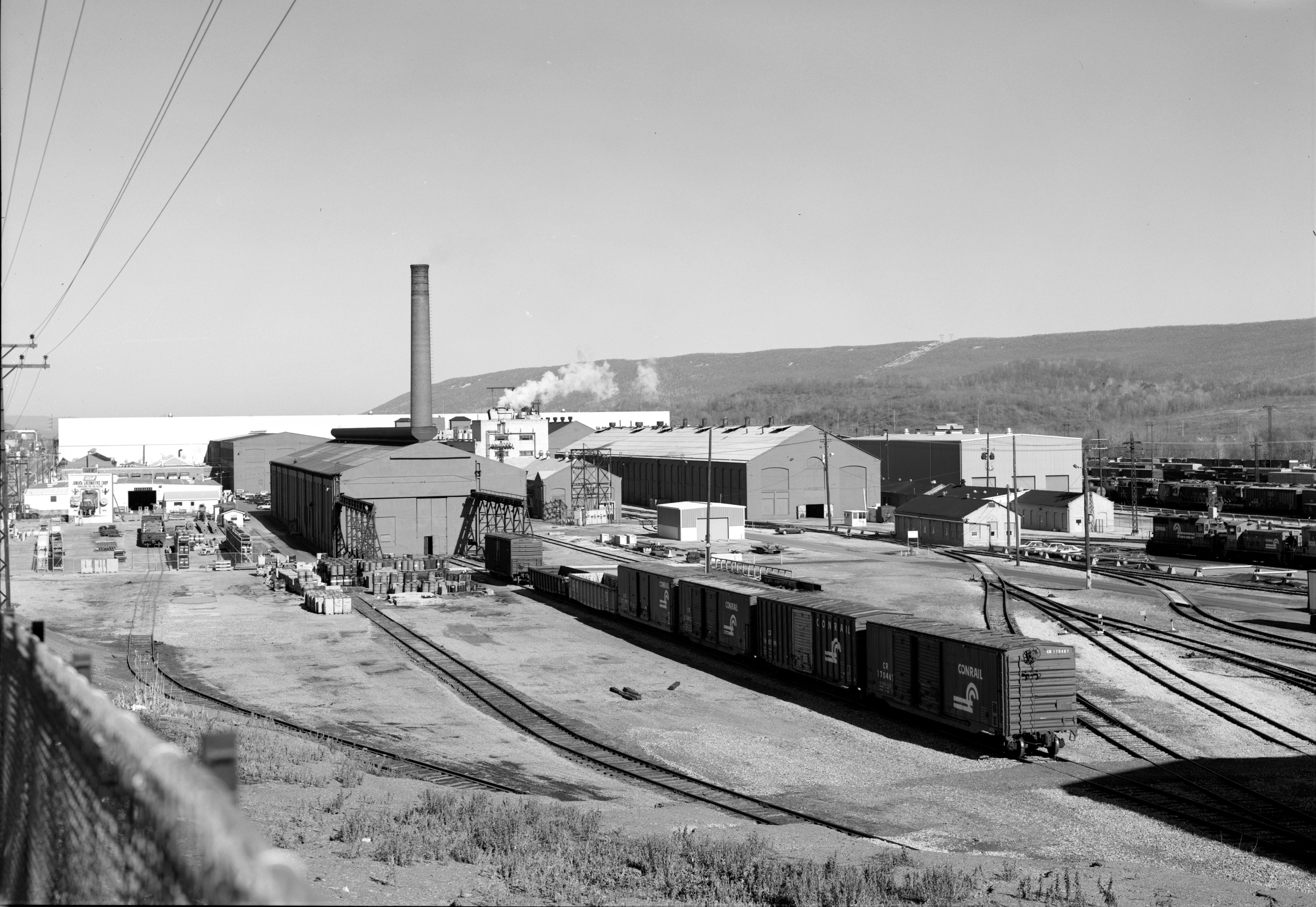 View of Juniata Shops complex, East side of Chestnut Avenue, South of Sixth Street, Altoona, Blair County, Pennsylvania, USA.